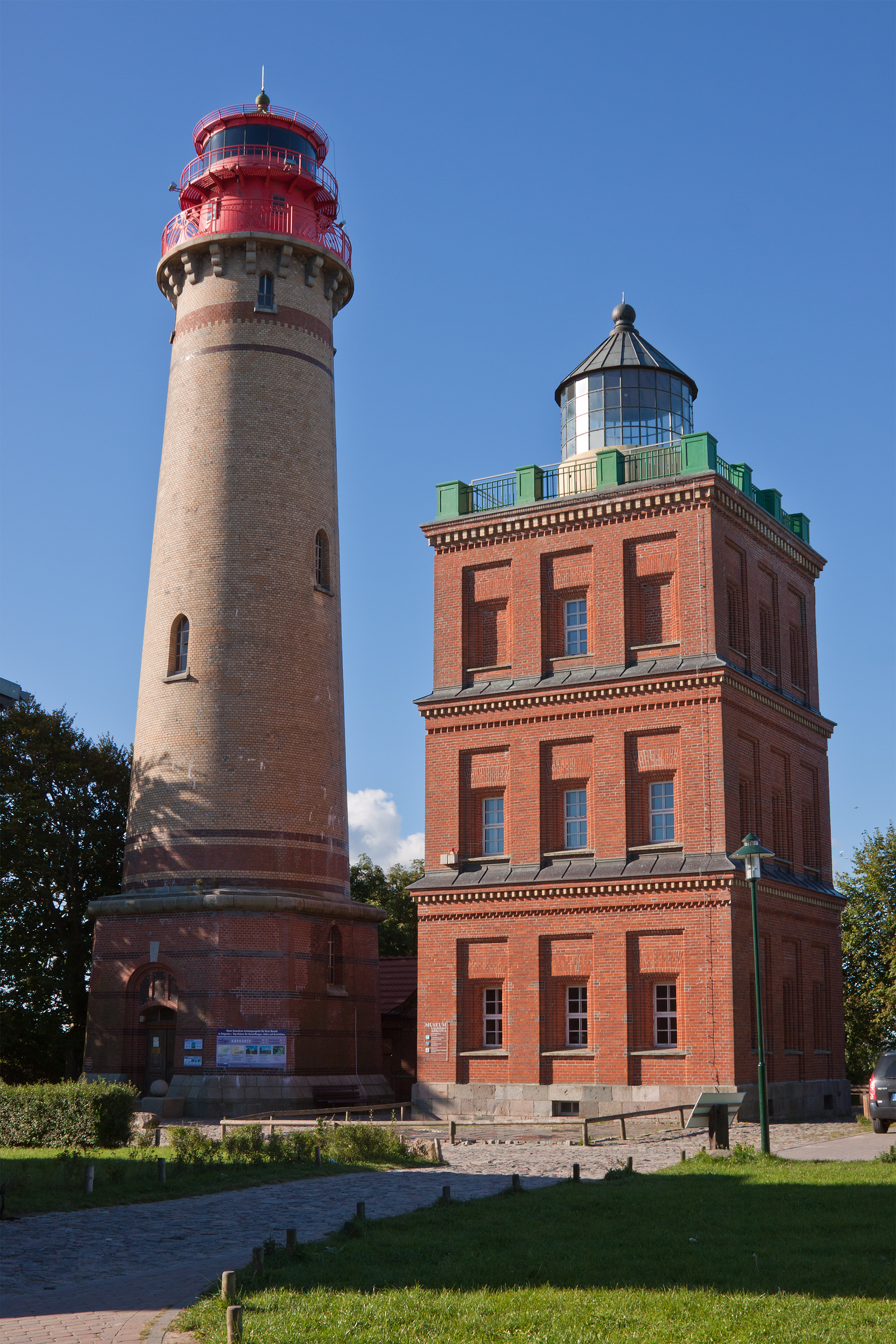 Cape Arkona, island of Rügen, Lighthouses